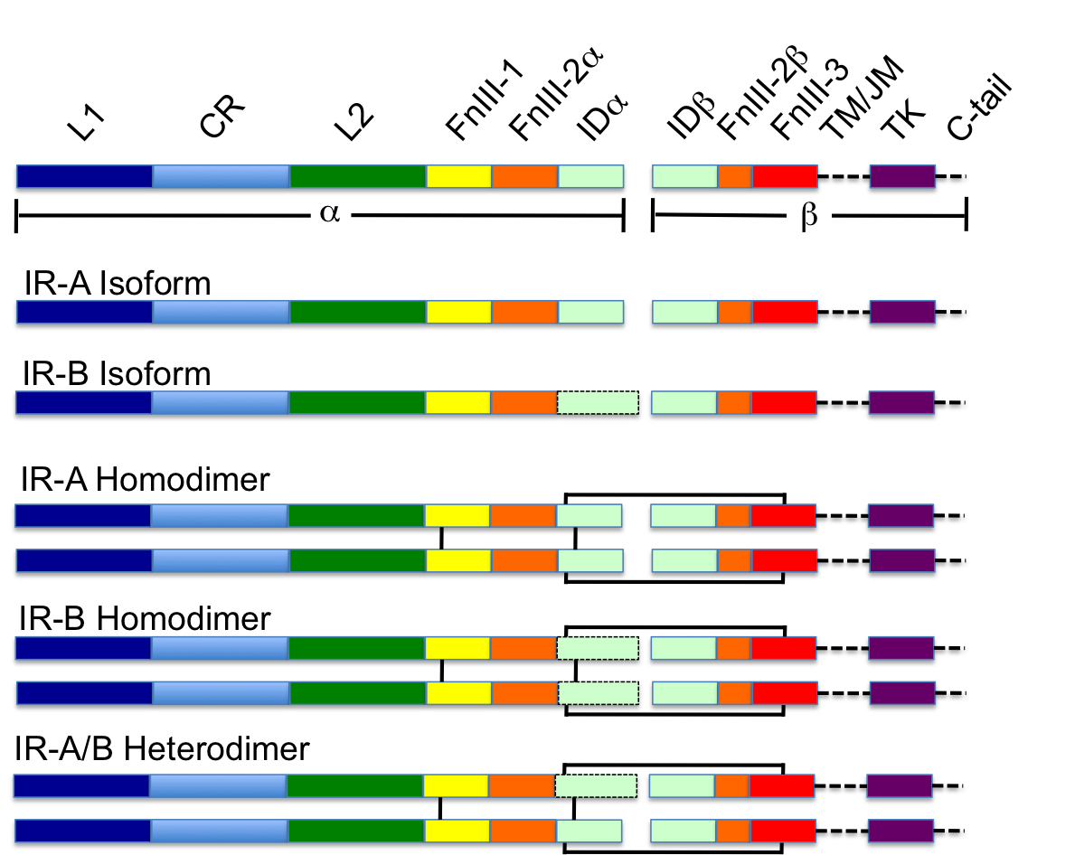 Colour coded Schematic of the Insulin Receptor featuring each domain with black lines representing disulphide linkages.